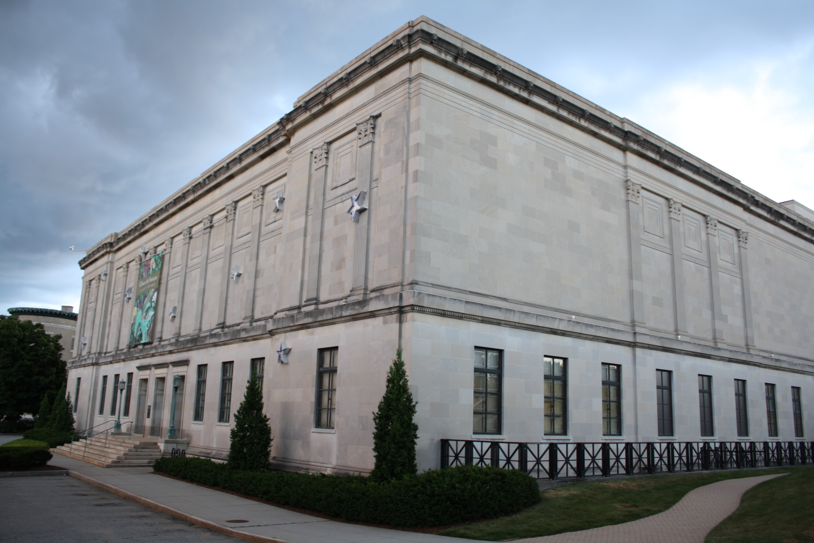 Worcester, MA, USA